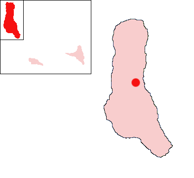 Koimbani, Grande Comore, Comoros Location Map; created with the GIMP. Made by User:Acntx. Koimbani est une ville située au centre-est de la Grande comore, le chef lieu de la région de Oichili. son histoire est souvent collée à celle du poète, roi et philosophe Mbaé Trambwé et qui a existé selon des études archélogiques au XVIII e siècle de l'ère chrétienne. Mbaé Trambwé qui, à Koimbani a laissé des traces arcitecturales notamment son palais royal (Dari ya yezi) c'est à dire le "palais du pouvoir" mais surtout une pensée originale à lui-même philosophique et artistique. Ses proverbes, comme ses citations demeurent pour les Comoriens un appui authentique auquel ils font recours pour être le plus éloquent et donc persuasif possible dans leurs discours. Le palais Mbaé Trambwé est malheureusement en état de délabrement et vit sous une menace permanente de se voir effondré. Rien n'empêche les bonnes volontés d'aider à ce que ce site soit maintenu encore pour une durée élevée, ne serait-ceque pour perpétuer cette séquence de l'Histoire d'un homme présent dans les esprits des Comoriens mais aussi pour faire de l'Histoire un moyen de porter aide à tout monument de cette envergure.